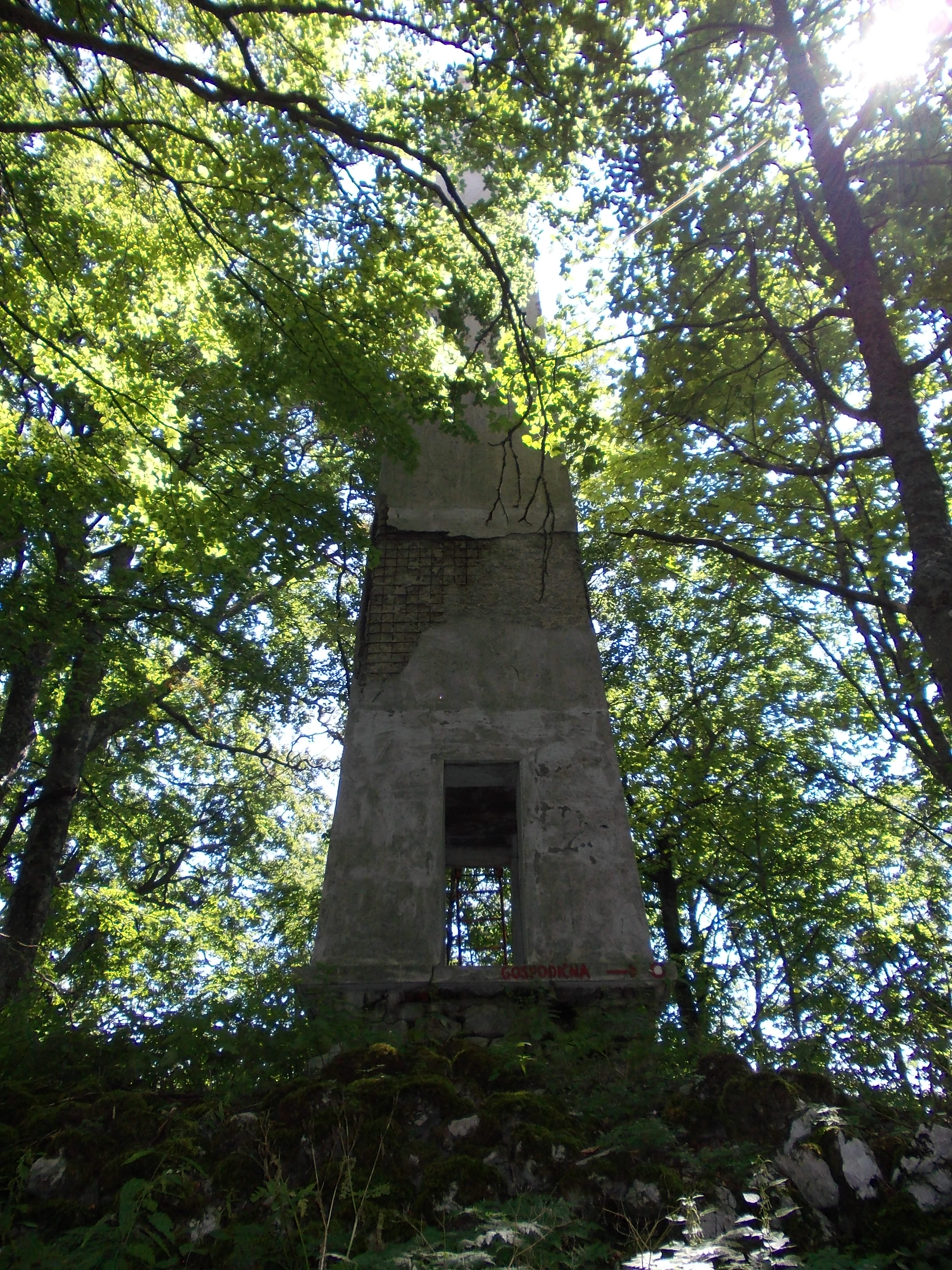 Trdinov vrh